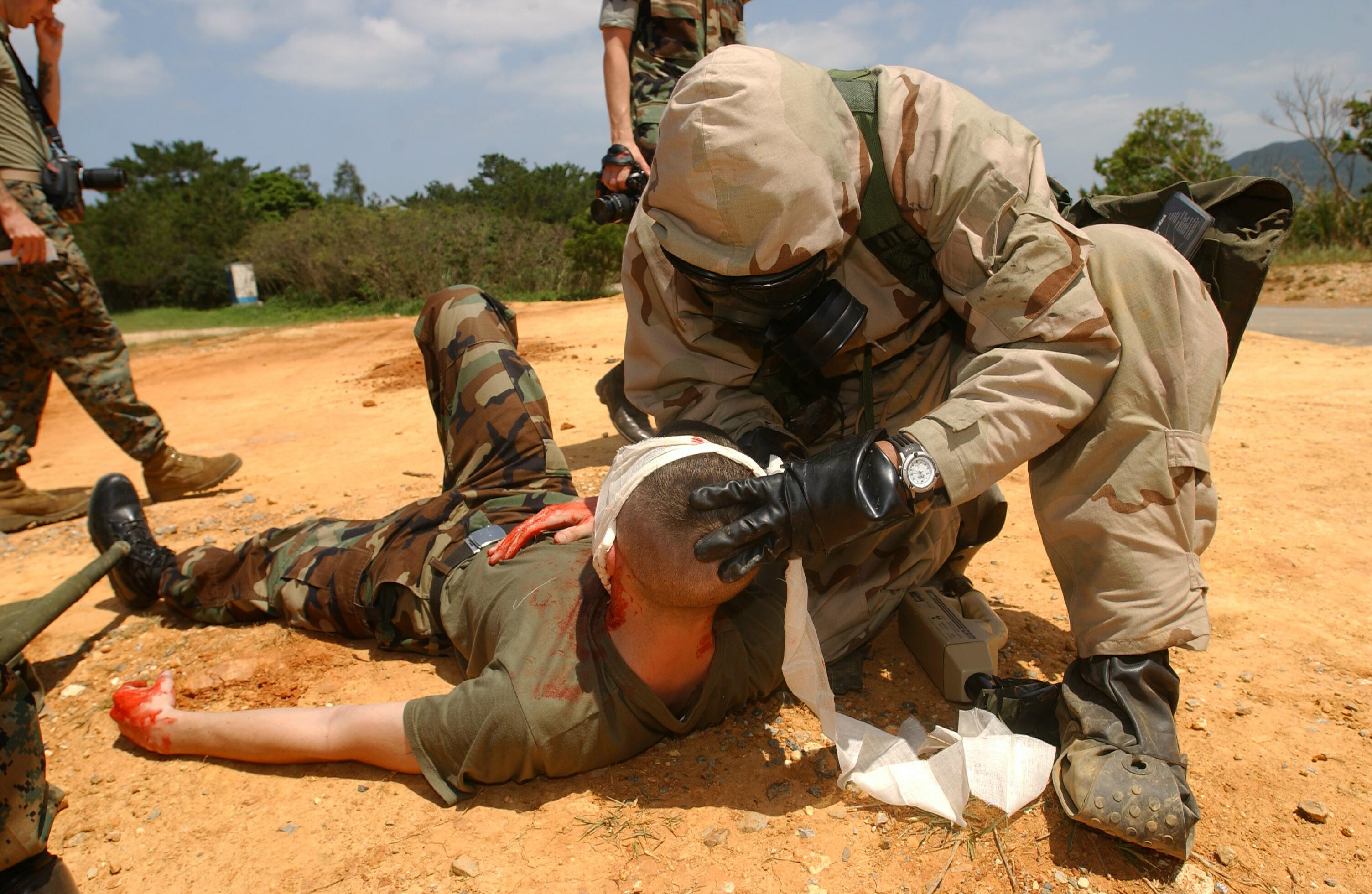 Okinawa, Japan (Apr. 28, 2003) -- Hospital Corpsman 2nd Class Fredd Allen, assigned to the U.S. Marines 3rd Division Medical Battalion, applies a head dressing to a simulated wound on the face of patient Hospital Corpsman 3rd Class Jason Denham. The corpsmen trained on proper procedures during a chemical or biological attack as part of the mass casualty field training exercise. U.S. Marine Corps photo by Lance Corporal Craig Williamson. (RELEASED)